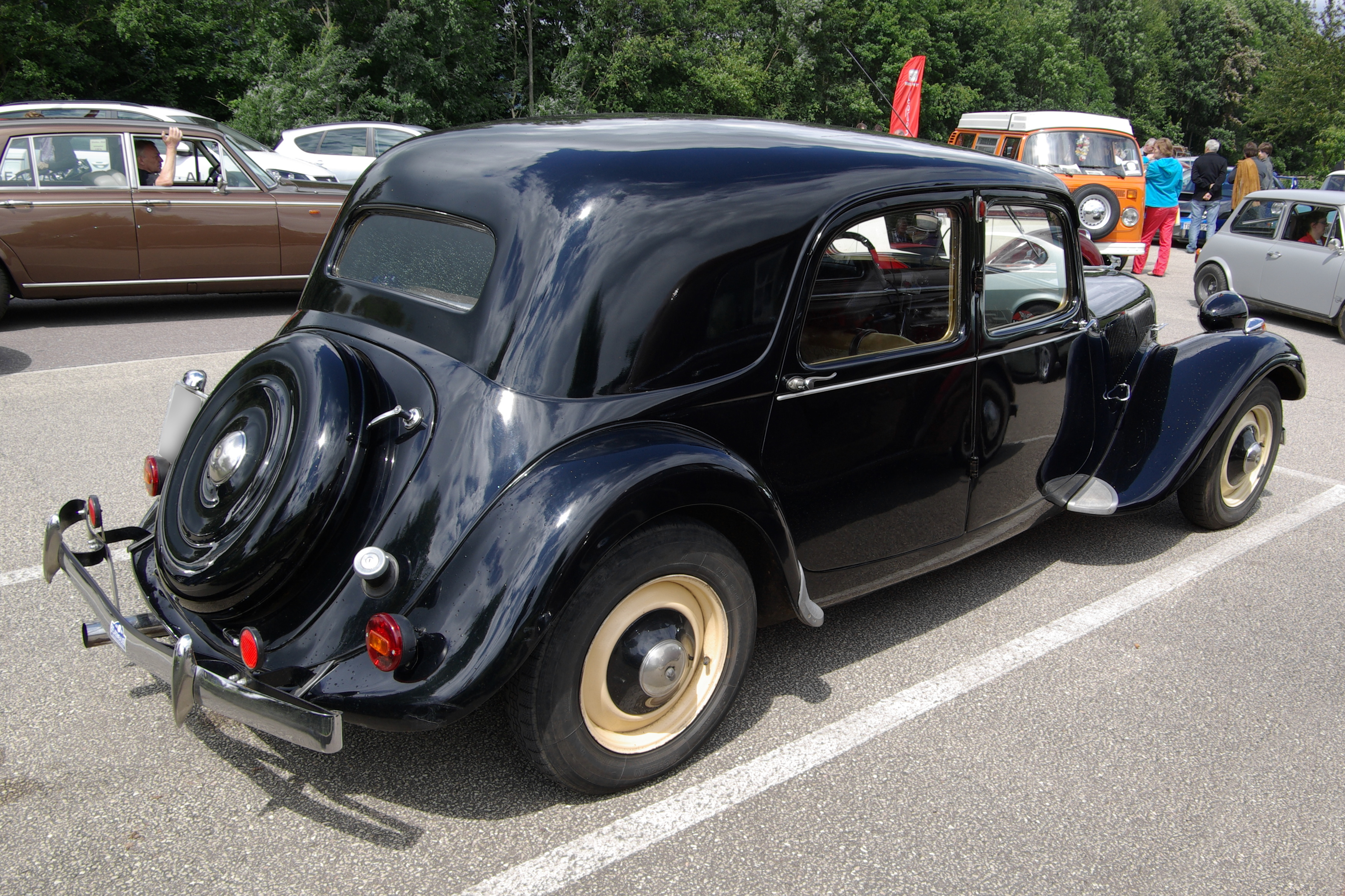 Citroën Traction Avant 11B, Baujahr 1950, 56 PS, 28. Internationales Oldtimer-Treffen, Konz